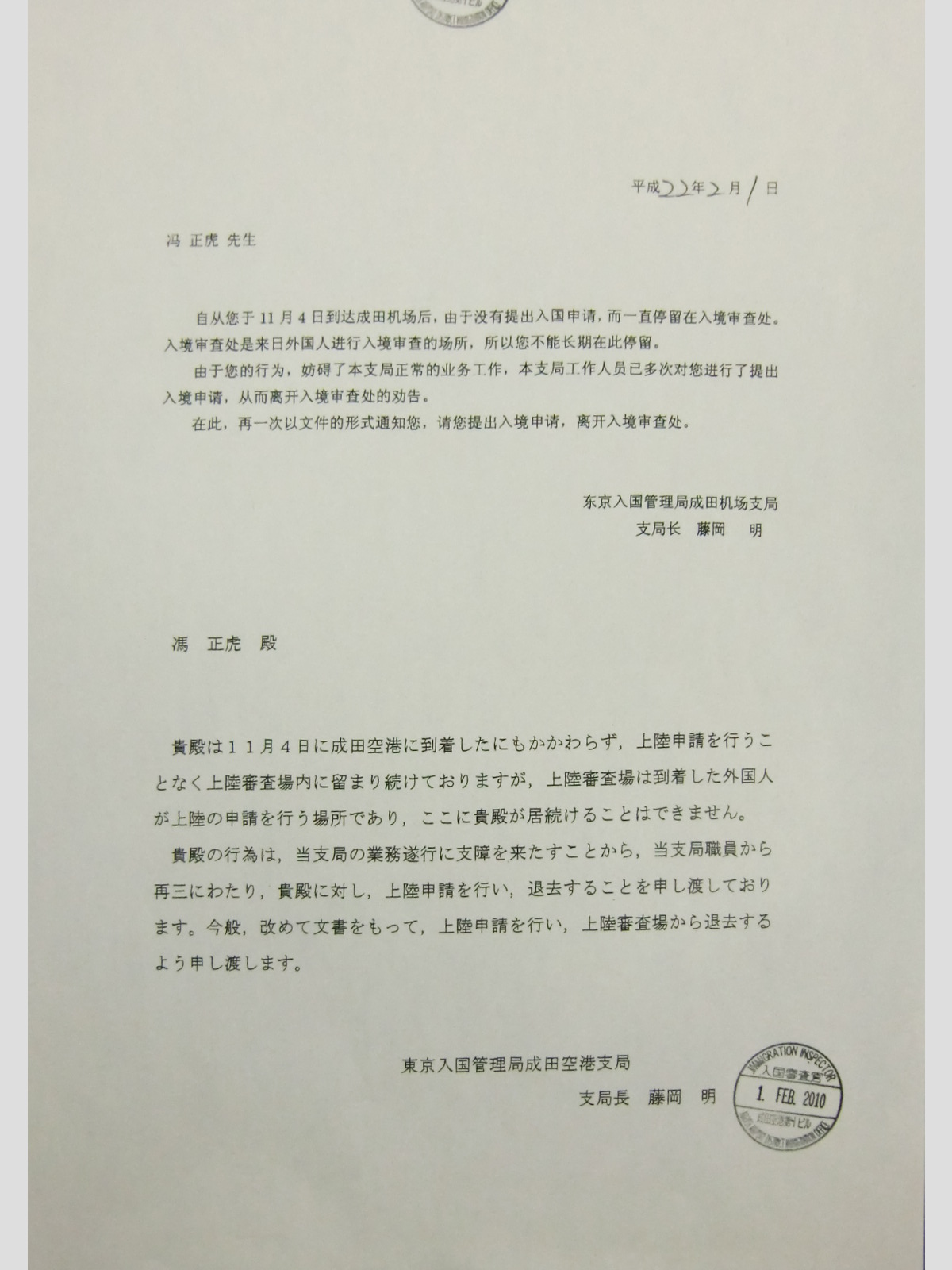 The_61st_letter_Japanese_officials_to_Feng_Zhenghu